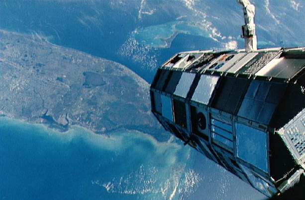 The Long Duration Exposure Facility (LDEF) is placed in orbit by the shuttle Challenger crew in this view. Still attached to the remote manipulator system (RMS) end effector, the LDEF is backdropped against Florida, the Bahama Bank, the Gulf of Mexico and Atlantic waters.